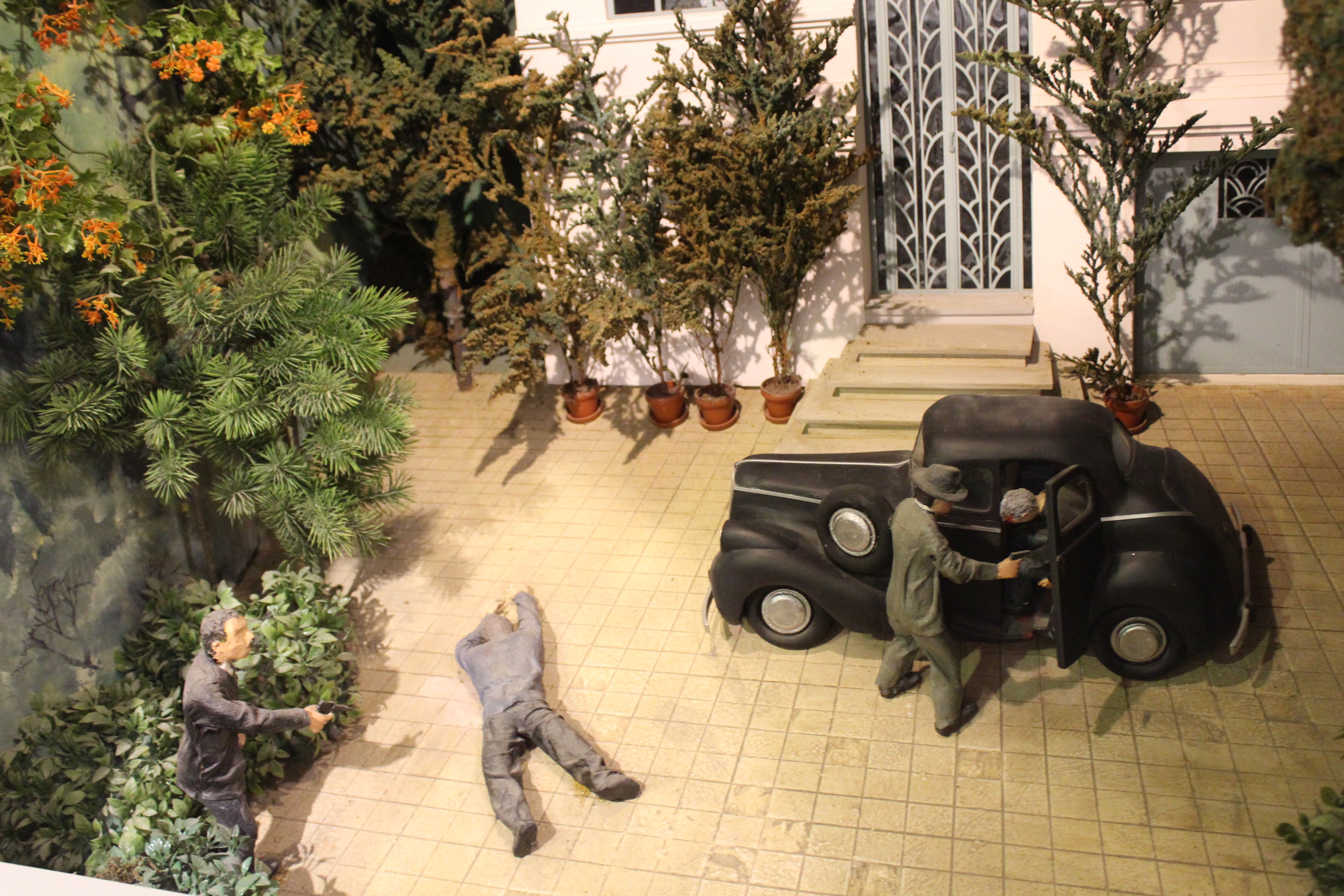 The Lehi Museum, also known as Beit Yair, is placed in the house where the Lehi commander, Avraham Stern (Yair) was assassinated. Including the room where Abraham Stern, Lehi commander, was murdered by a British policeman on 12/2/1942. The site's ID in Wiki Loves Monuments photographic competition is 3-5000-037